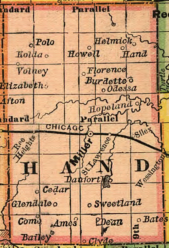 Hand County, South Dakota (1892) showing townships and villges